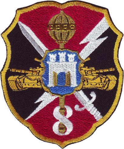 Shoulder Sleeve Insignia of the Ukrainian Army 8th Army Corps Command